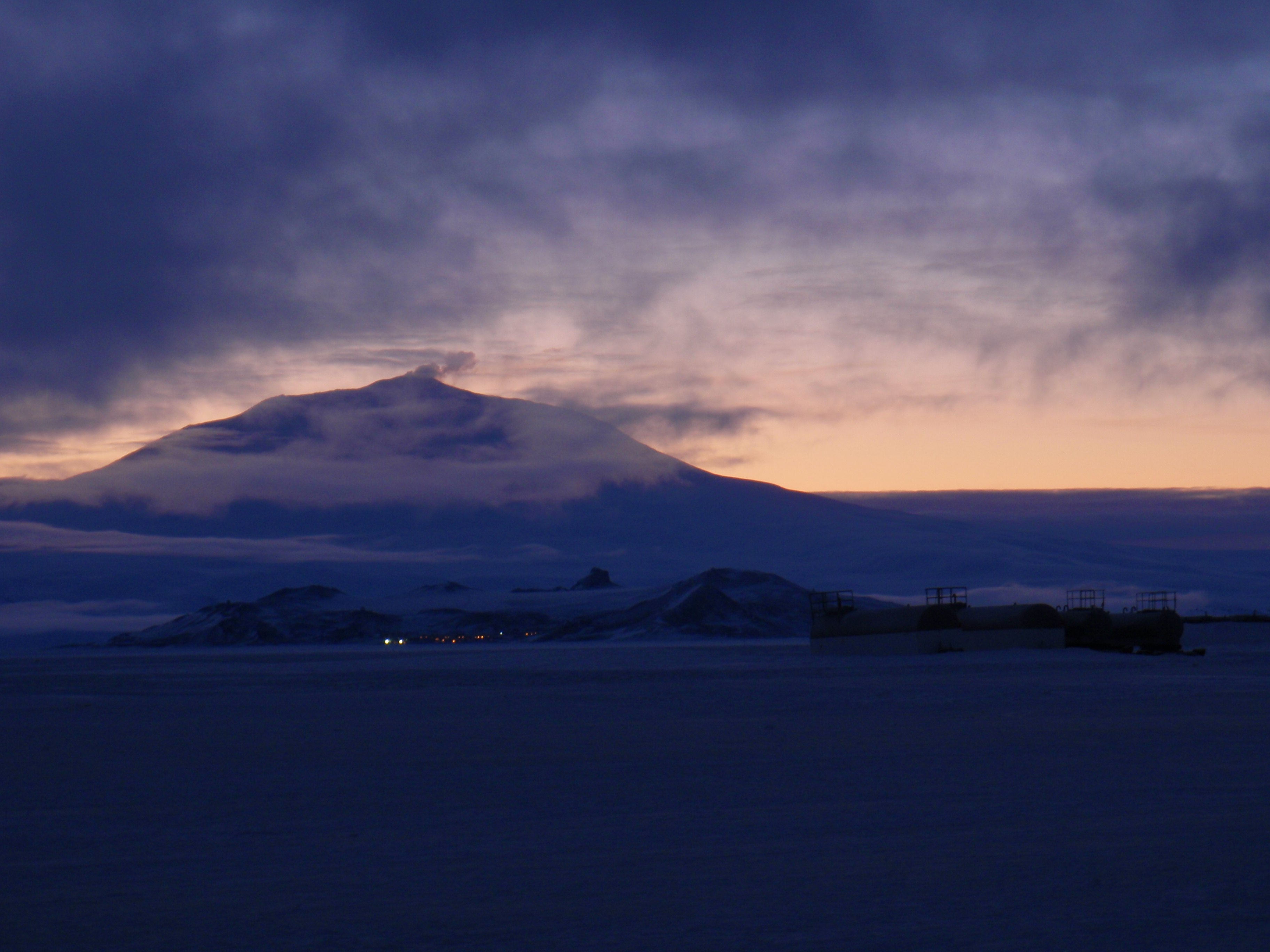 A view of Ross Island from Pegasus Field, during one of the long twilights this time of year. Mount Erebus looms in the background over the lights of McMurdo Station. In the foreground are fuel tanks for the airfield.